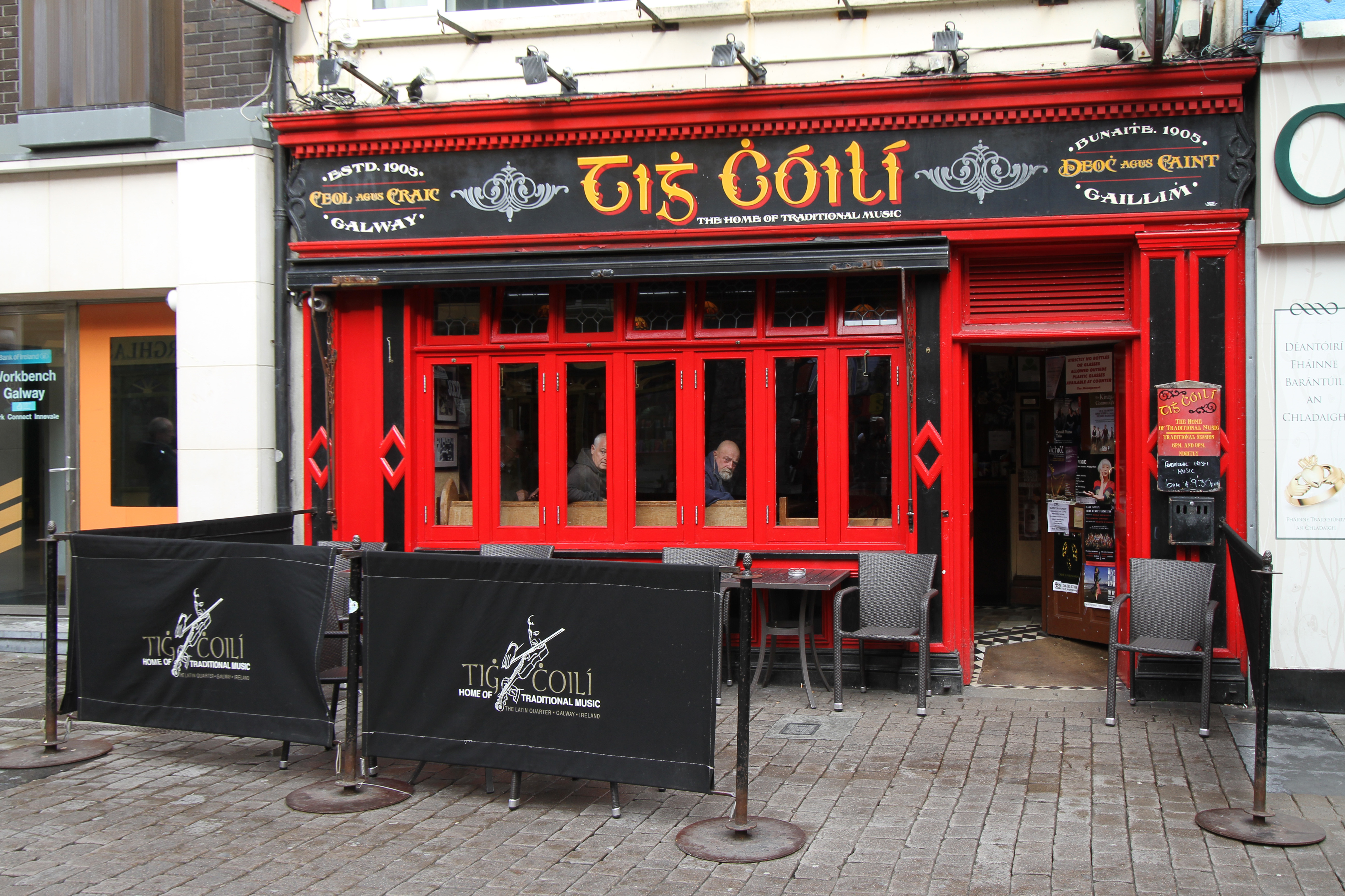 Pub in Galway.